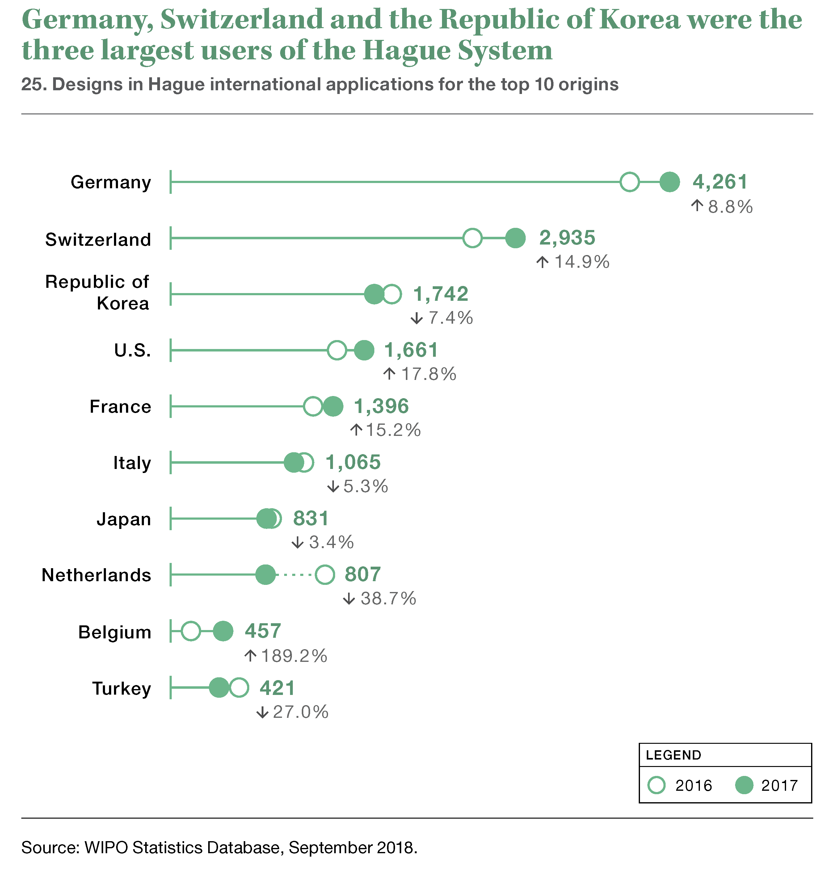 25. Designs in Hague international applications for the top 10 origins